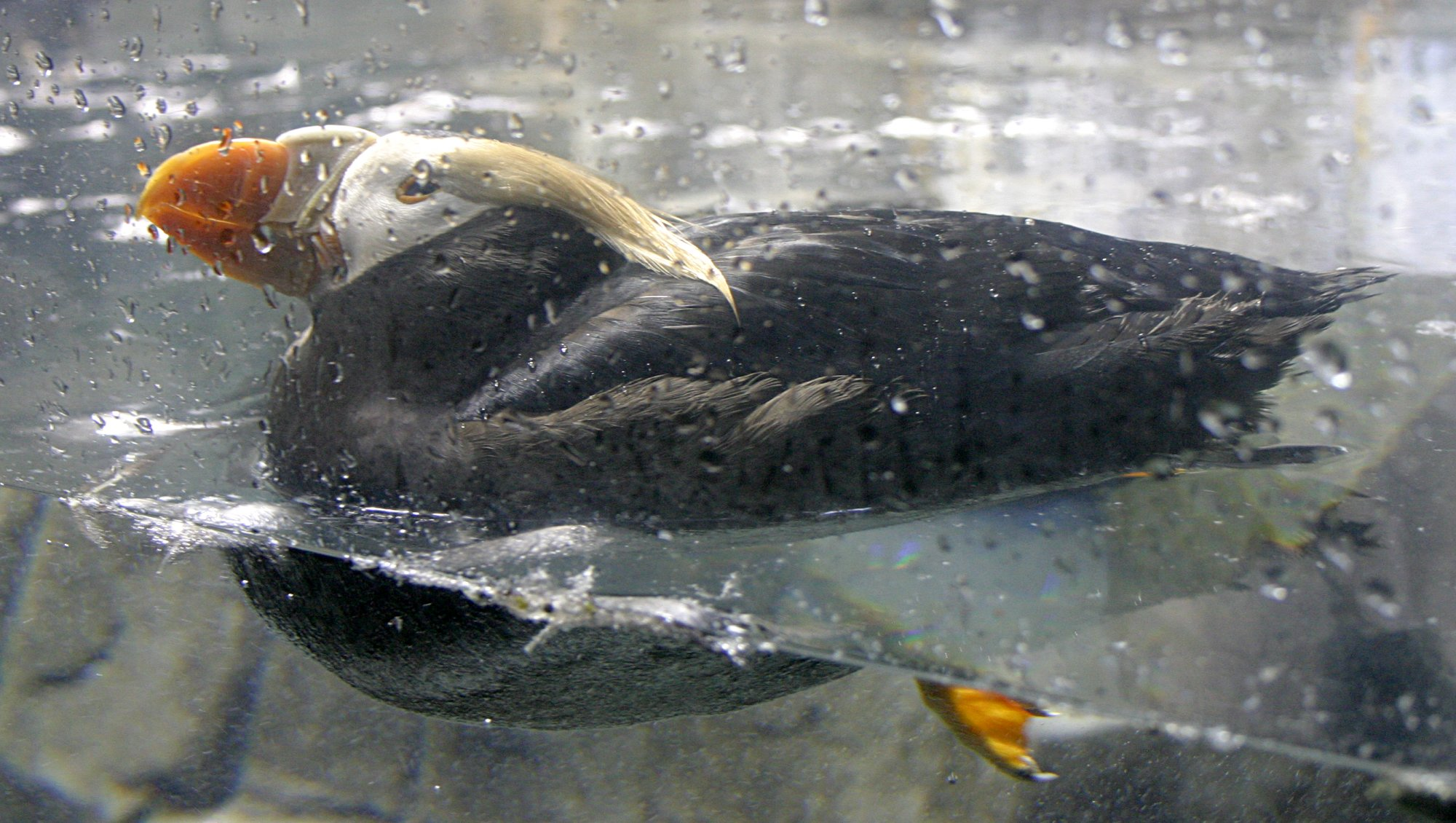 Tufted Puffin at the Henry Doorly Zoo in Omaha, Nebraska.